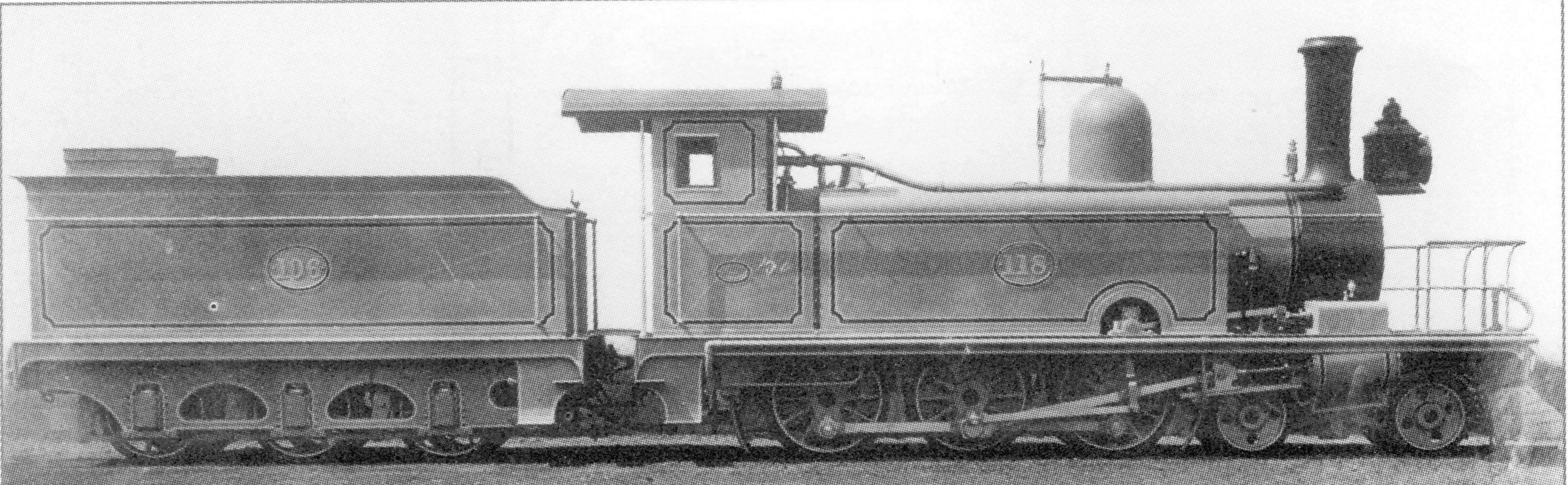 Cape Government Railways 4th Class 4-6-0TT of 1882, Neilson-built with Joy valve gear